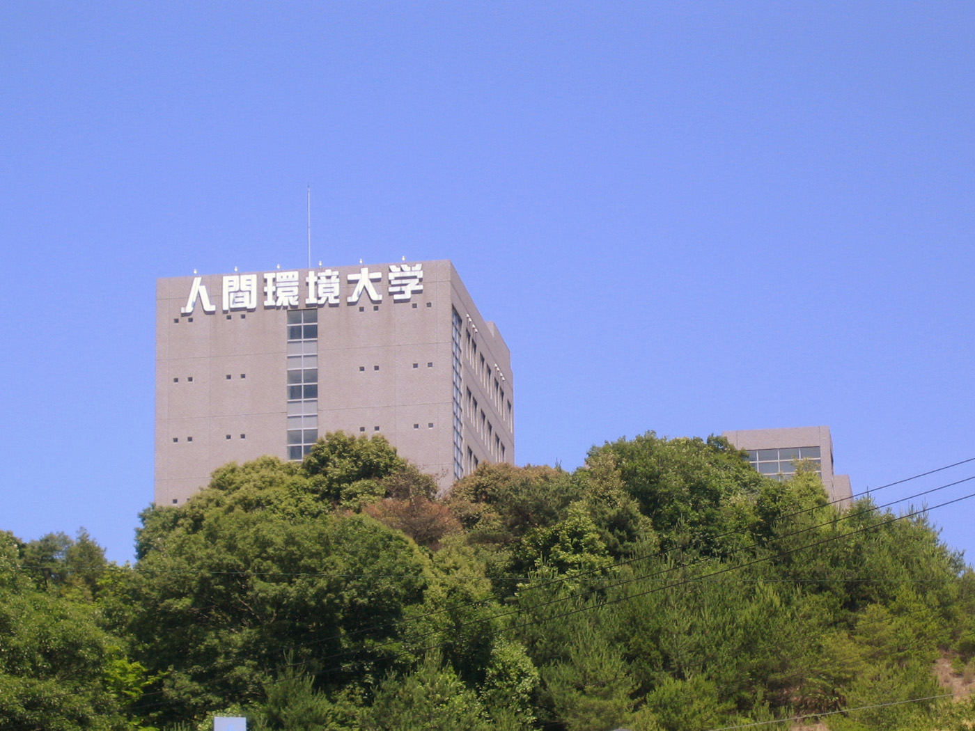 人間環境大学。愛知県岡崎市University of Human Environments (人間環境大学), located in Okazaki, Aichi, Japan